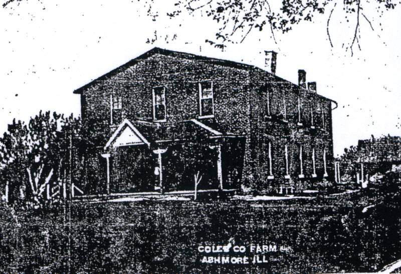 This is the original almshouse that stood on the Coles County Poor Farm from 1870 to 1915.